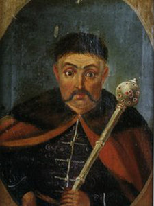 Taras Triasylo, Crimean Tatar leader of the Cossacks, death 1637.